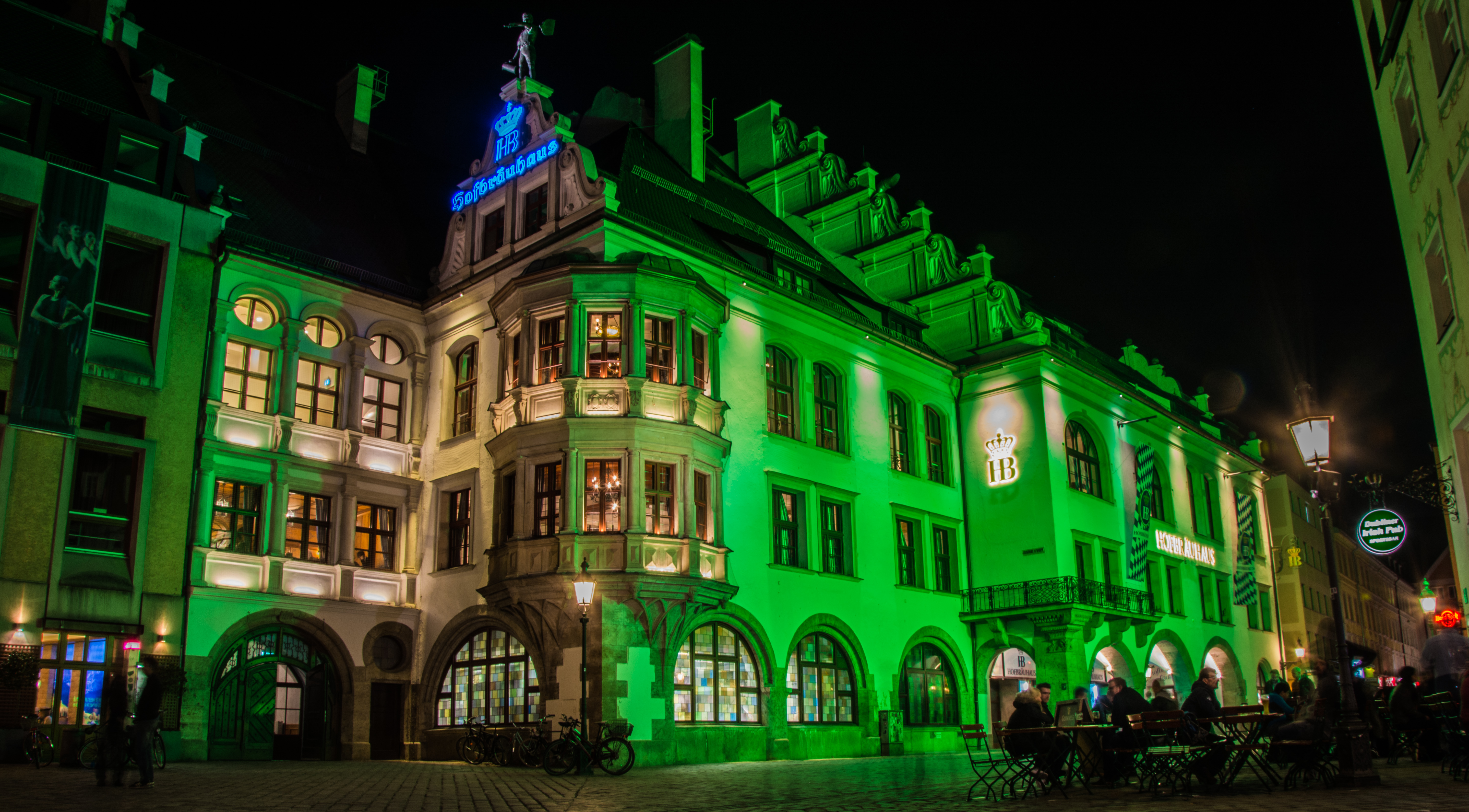 Greening of world famous Hofbräuhaus in Munich, Germany, at St. Patrick's Day on 17th of March, 2016.